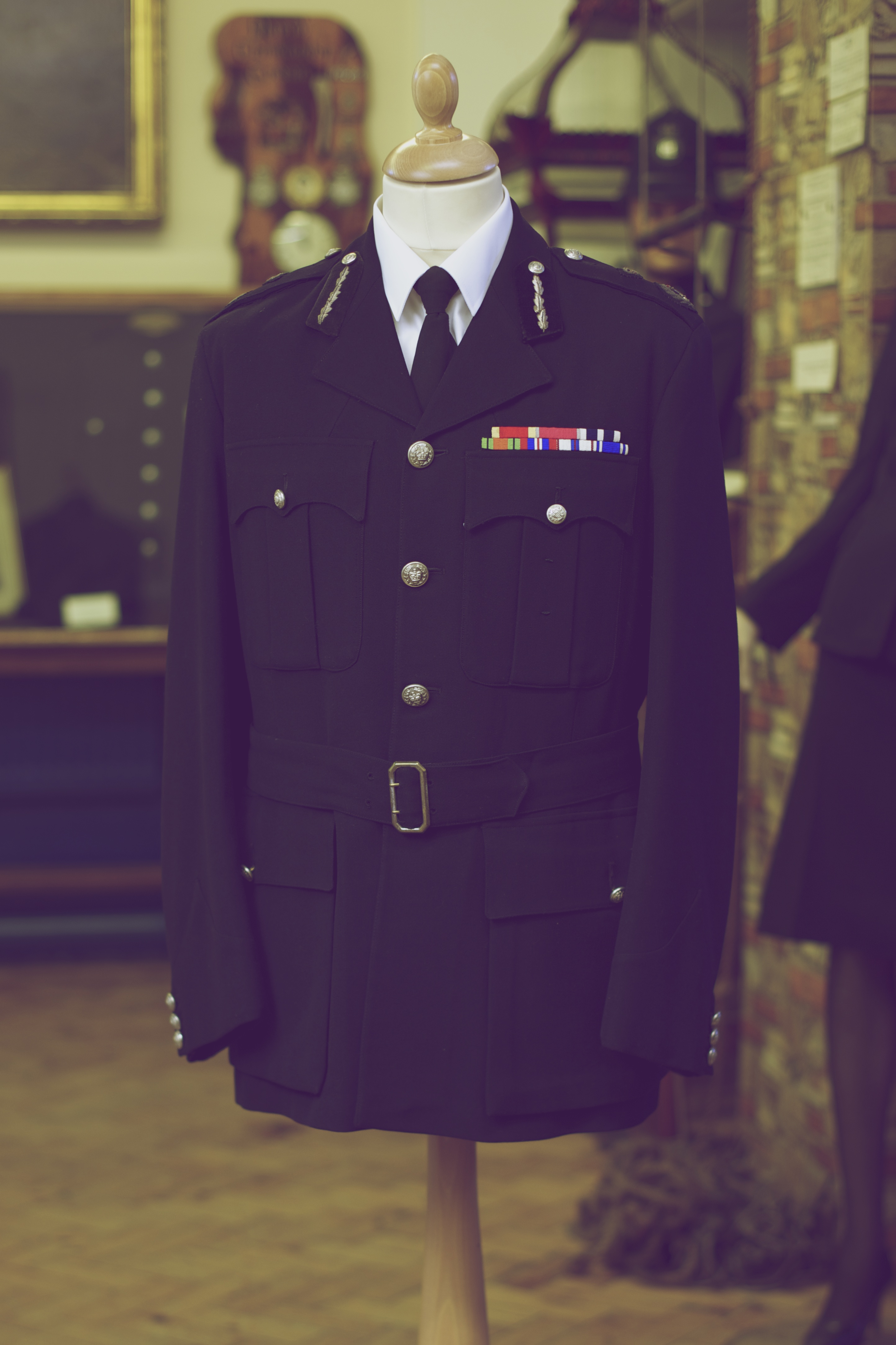 This uniform belonged to Sir Philip Knight, who served as Chief Constable of the newly formed West Midlands Police from 1975 until 1985. As you can see, this is more in keeping with the uniform worn by high ranking officers today.